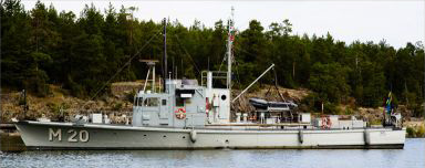 The Swedish minesweaper HMS M20.